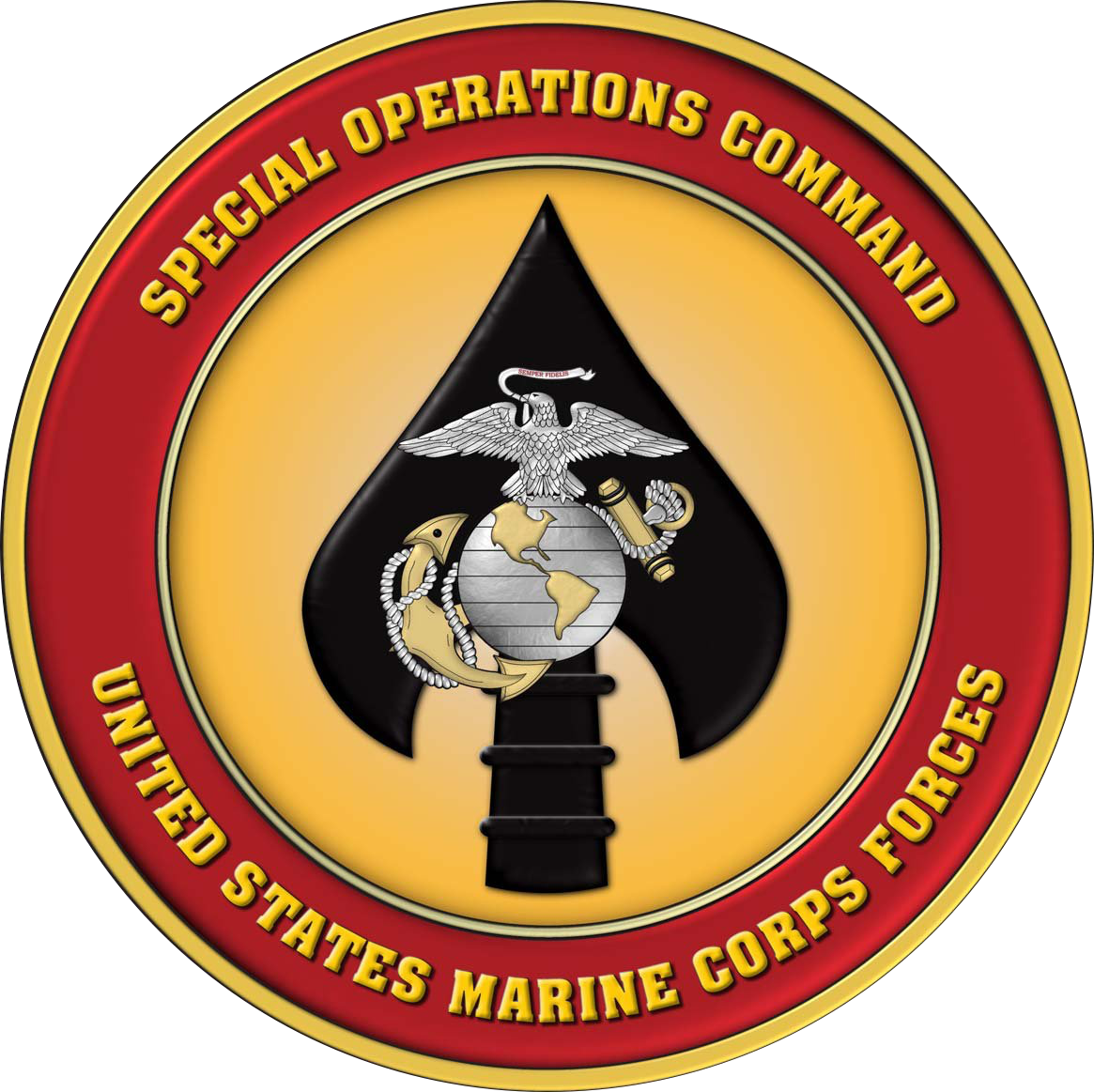 This is the seal of the Marine Corps Forces Special Operations Command